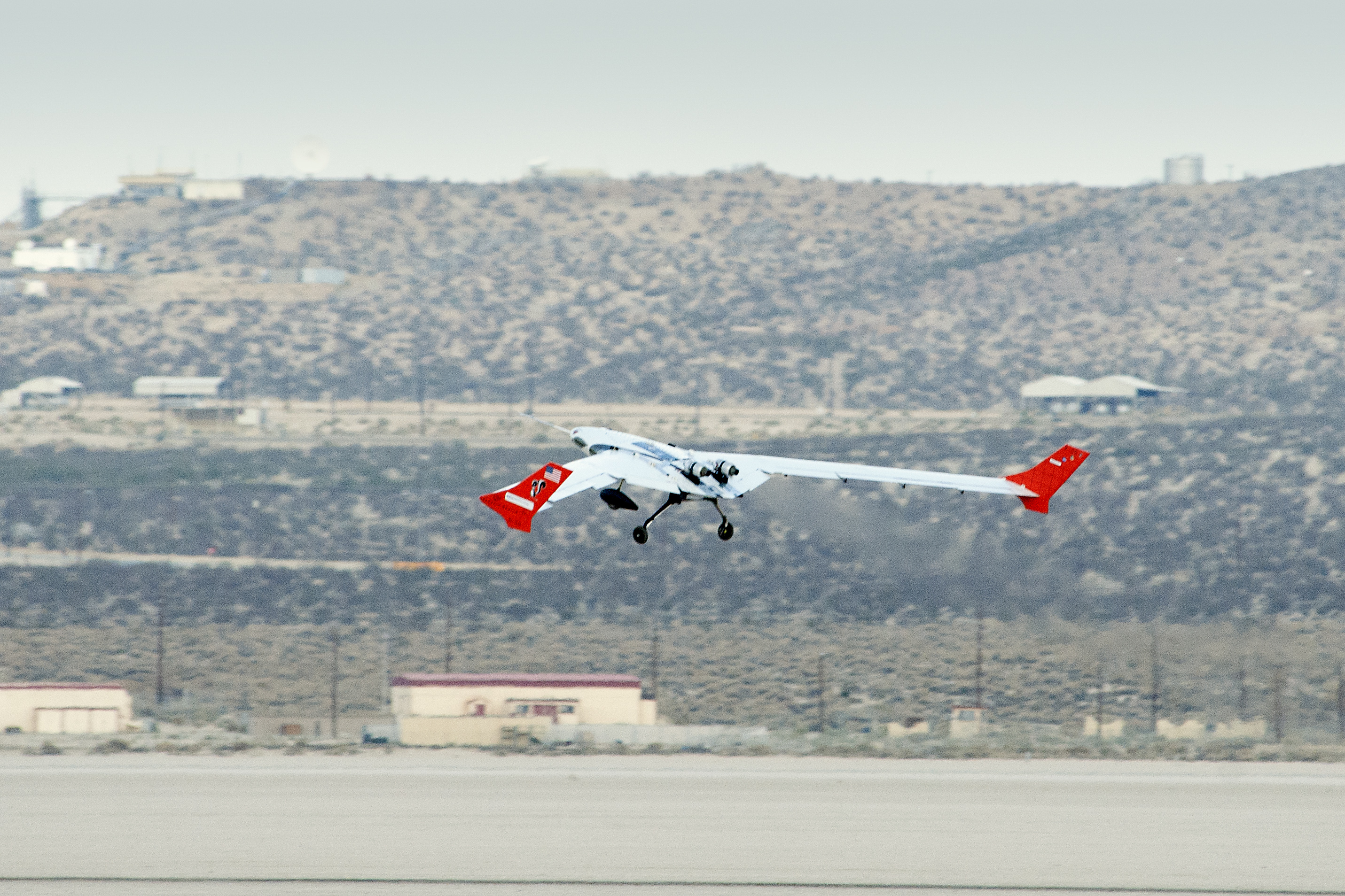 The X-56A Multi-Utility Technology Testbed takes off on its inaugural flight July 26 at Edwards AFB, Calif. The unmanned aircraft is designed to study active aeroelastic control technologies such as active flutter suppression and gust load alleviation. (NASA photo by Kenneth E. Ulbrich)